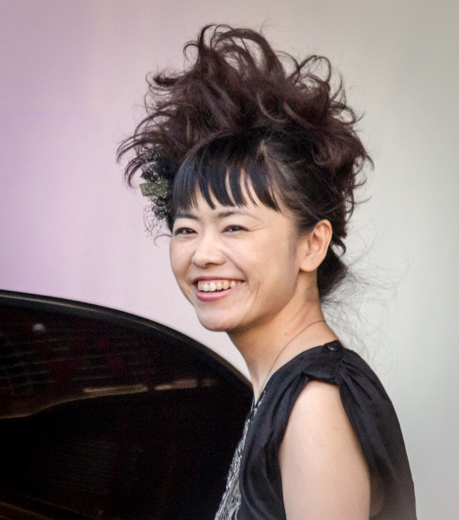 Hiromi Uehara during Jazz na Starowce festival in Warsaw, 2013-07-20.